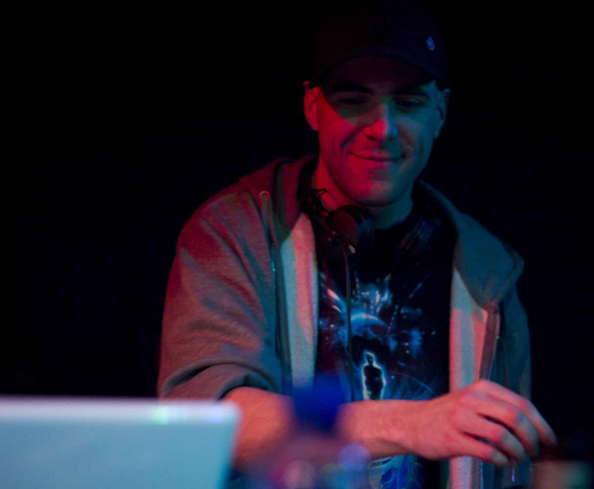 Matthew "Matt" Preston (aka Phaeleh) Amsterdam March 2011